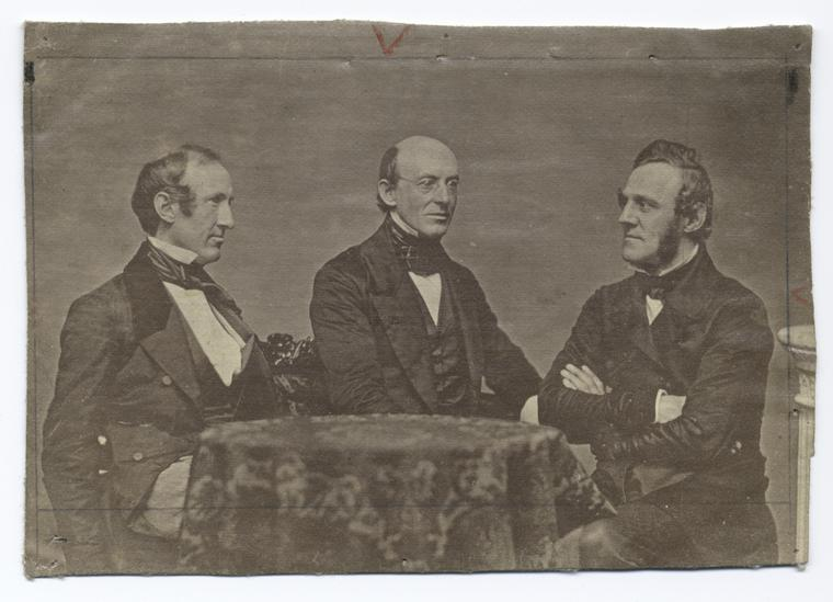 Photo of Wendell Phillips, William Lloyd Garrison and George Thompson, an English antislavery advocate.